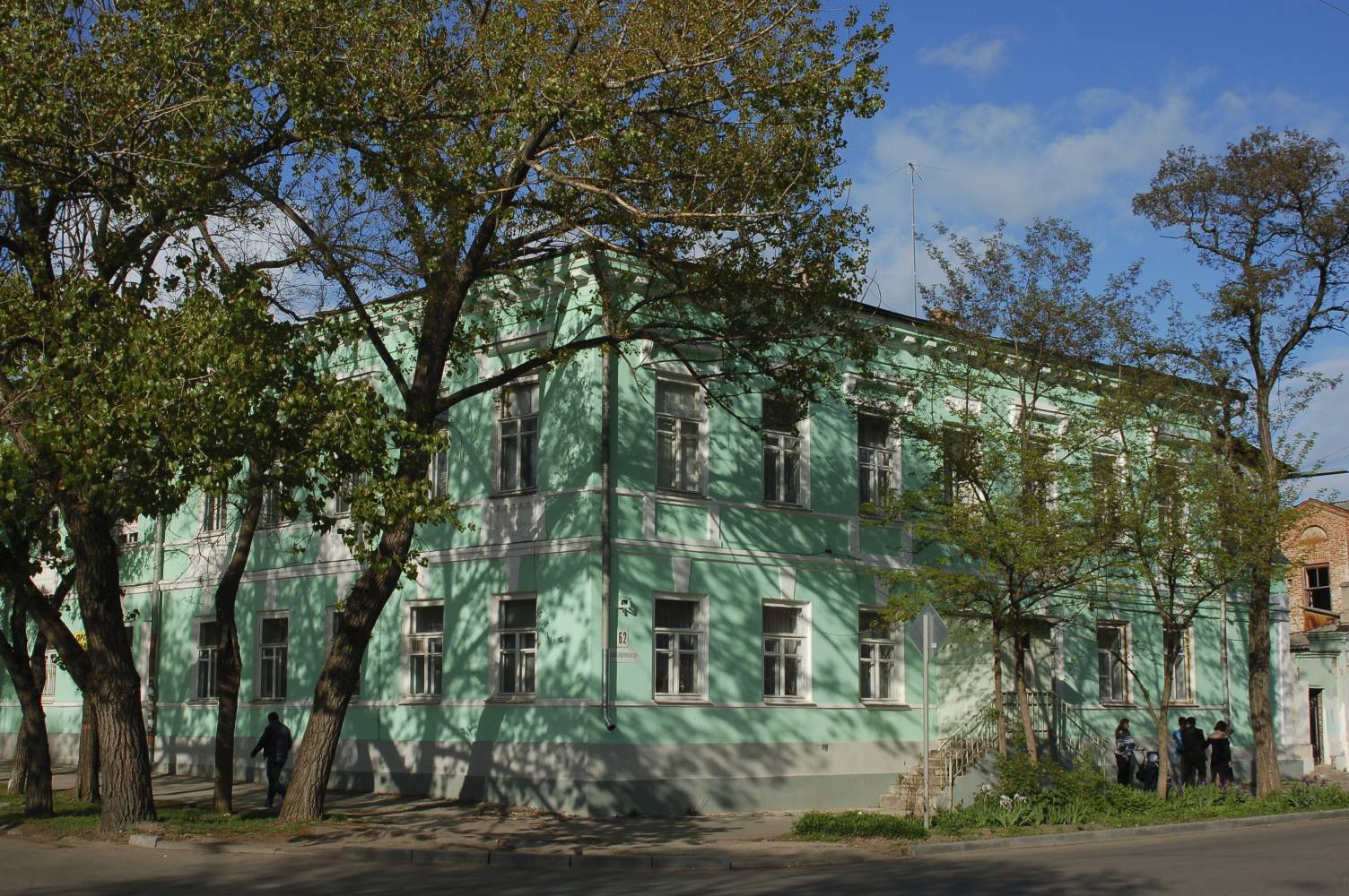 Birth house of Parnokhs in Taganrog